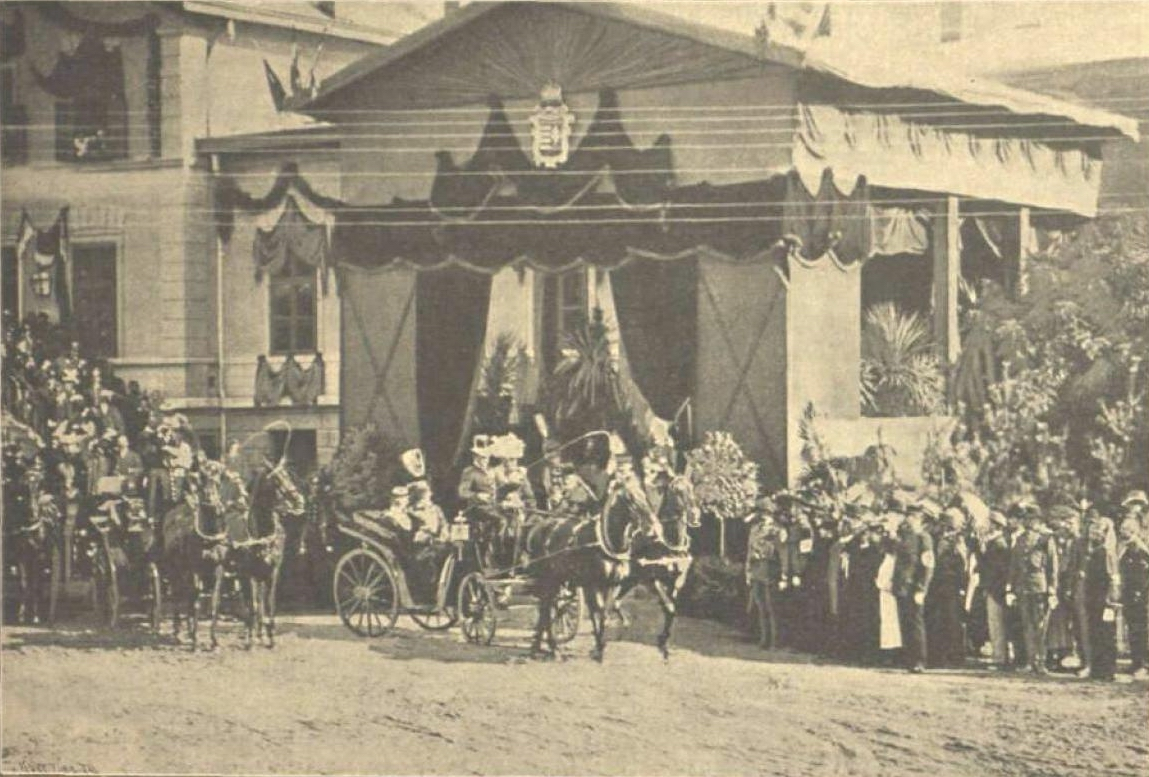 Franz Joseph as Hungarian king at the Orsova railway station, during the travel to the Iron Gate's opening ceremony